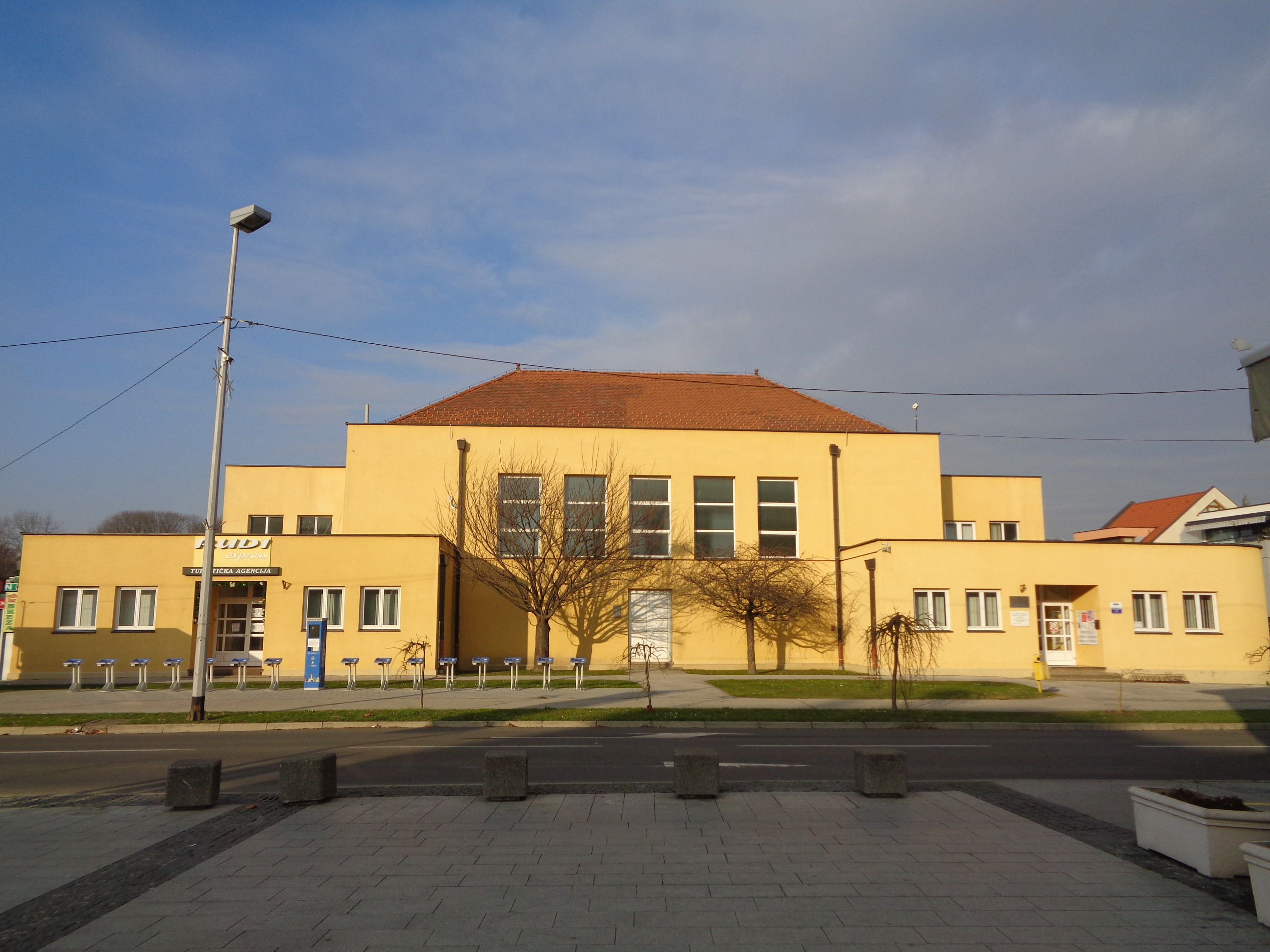 Macanov dom -sports hall dedicated to Marijan Zadravec-Macan, a distinguished sportsman, in Čakovec, Medjimurje County, Croatia - south view